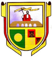 Escudo del municipio de San juan del rio